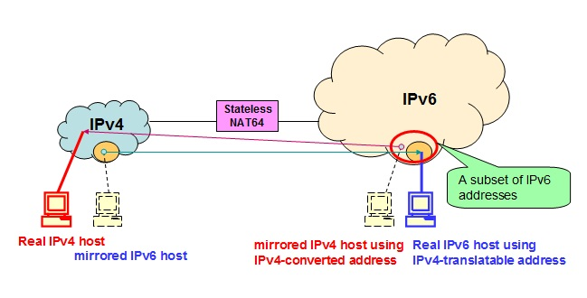 figure for article Stateless NAT64 (Stateless NAT46, IVI)